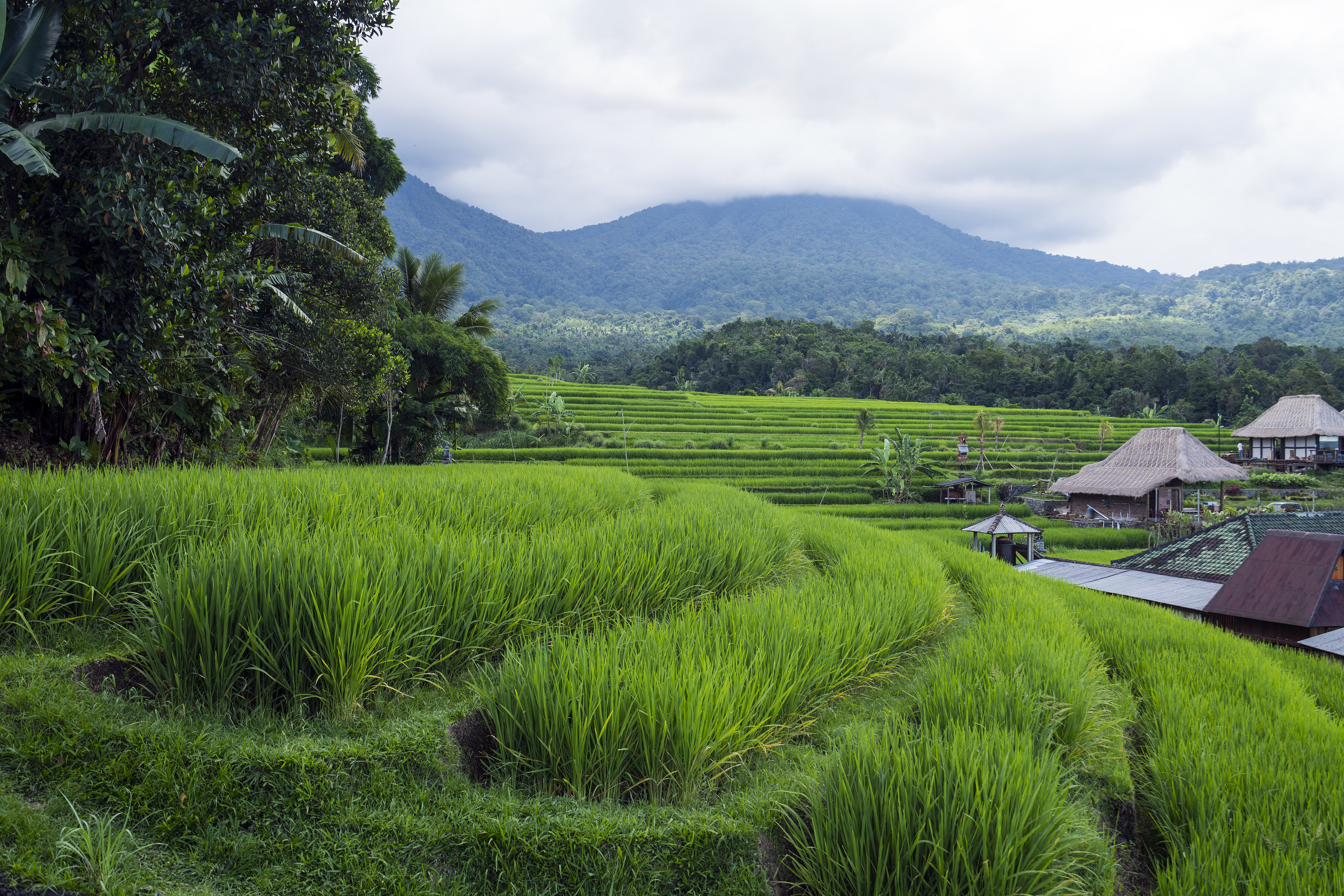 Balinese Landscape